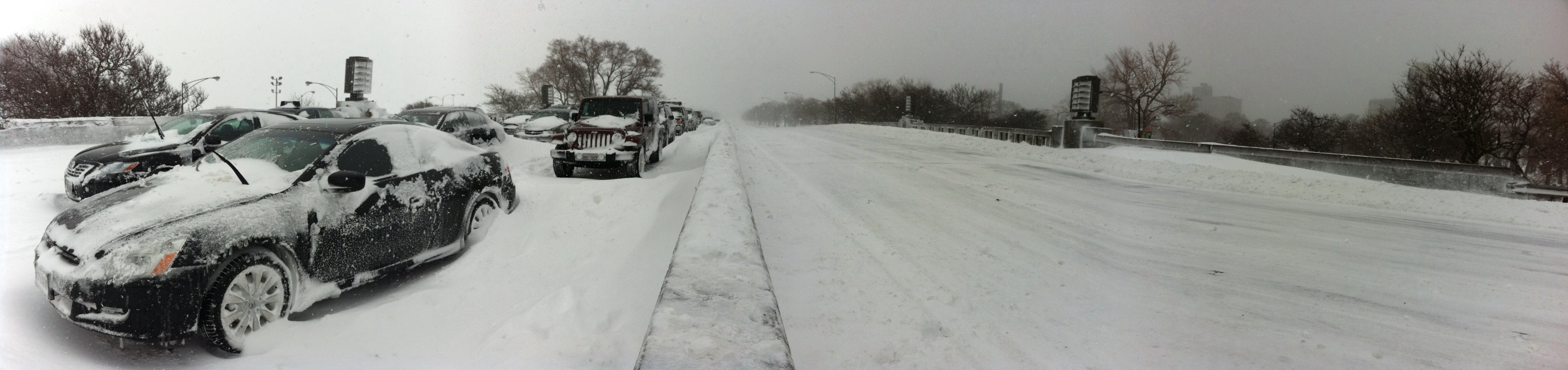 A panorama of cars stuck on Lake Shore Drive, Chicago, during a storm on 2 February 2011